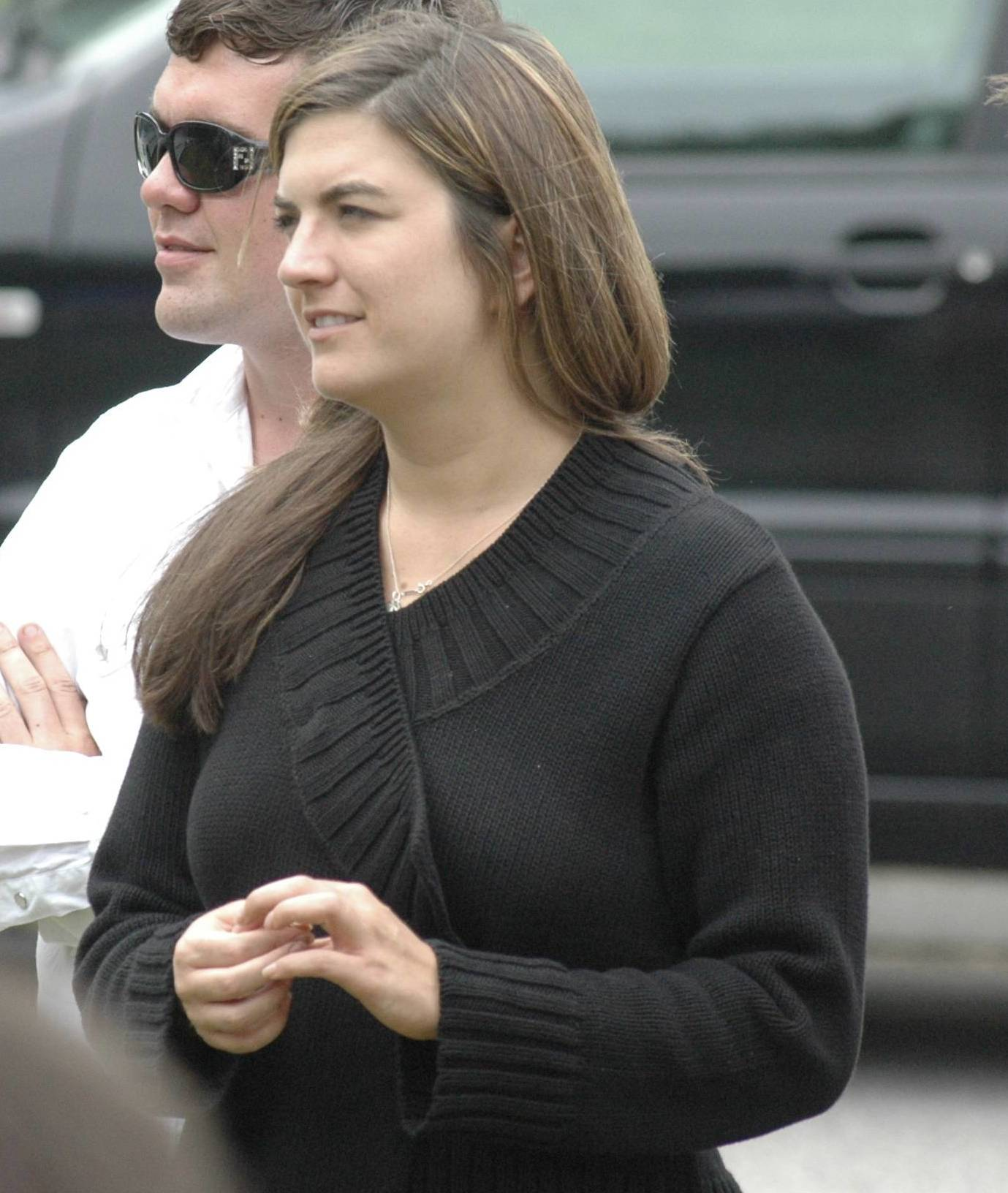 photo by Matt Klaber